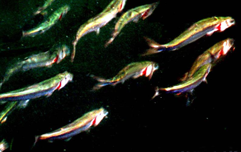 herring ram feeding image uwe kils gfdl